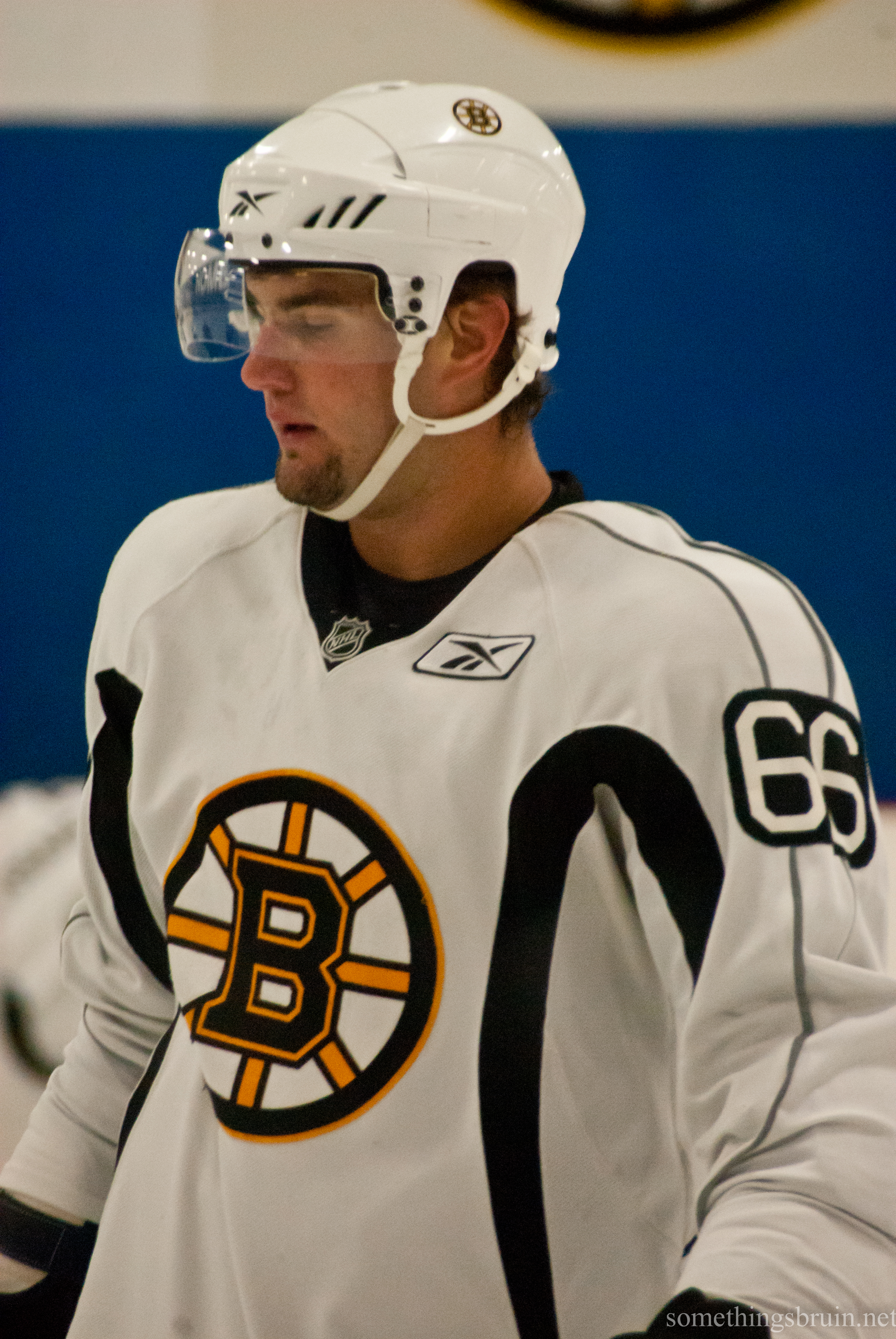 Bruins Dev Camp-6857.jpg Boston Bruins 2011 Development Camp - Day 3 National Hockey League (NHL) Photo taken by Sarah Connors at Wilmington, Massachusetts on July 9, 2011 using a Nikon D200. This photo also appears in sarah_connors' Flickr set: Bruins 2011 Development Camp - Day 3 (Set: 109)